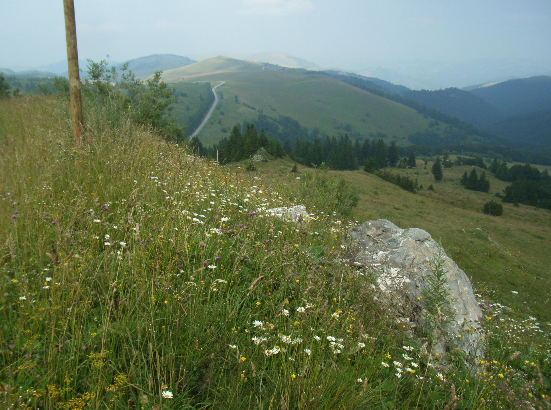 View on the Koapaonik Mountains in Southern Serbia at a heigt of about 1700 m